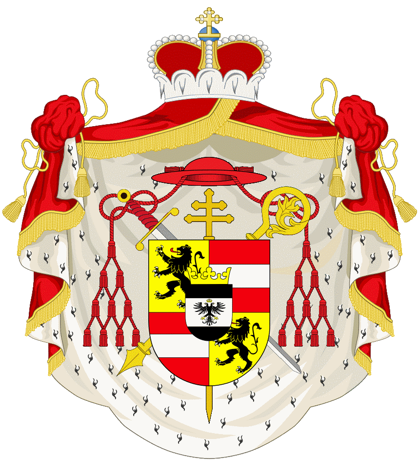 Coat of arms of Hieronymus Joseph Franz de Paula Colloredo von Waldsee und Mels, Prince-Archbishop of Salzburg, Austria (1772 - 1812).